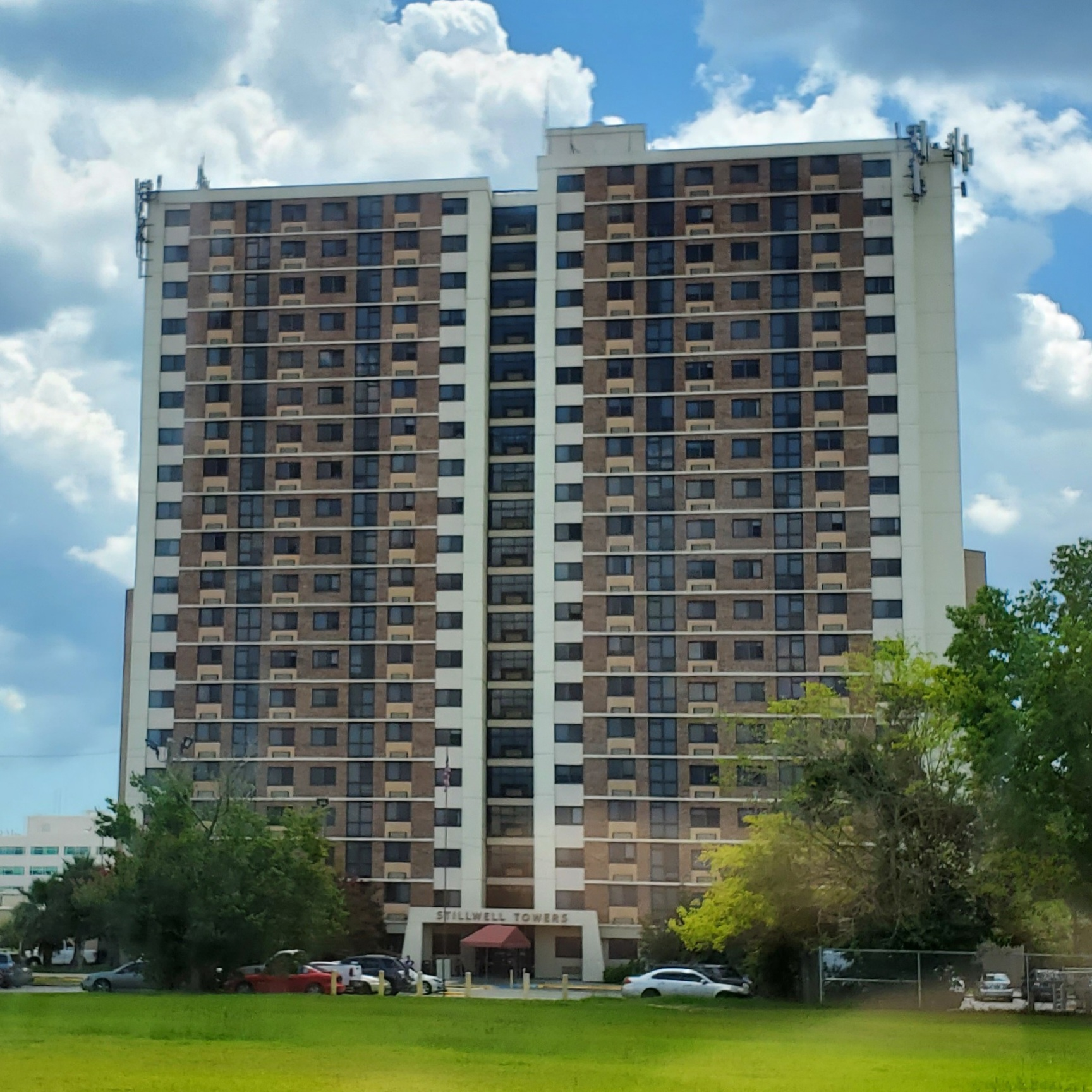 Stillwell Towers in Savannah, Georgia.